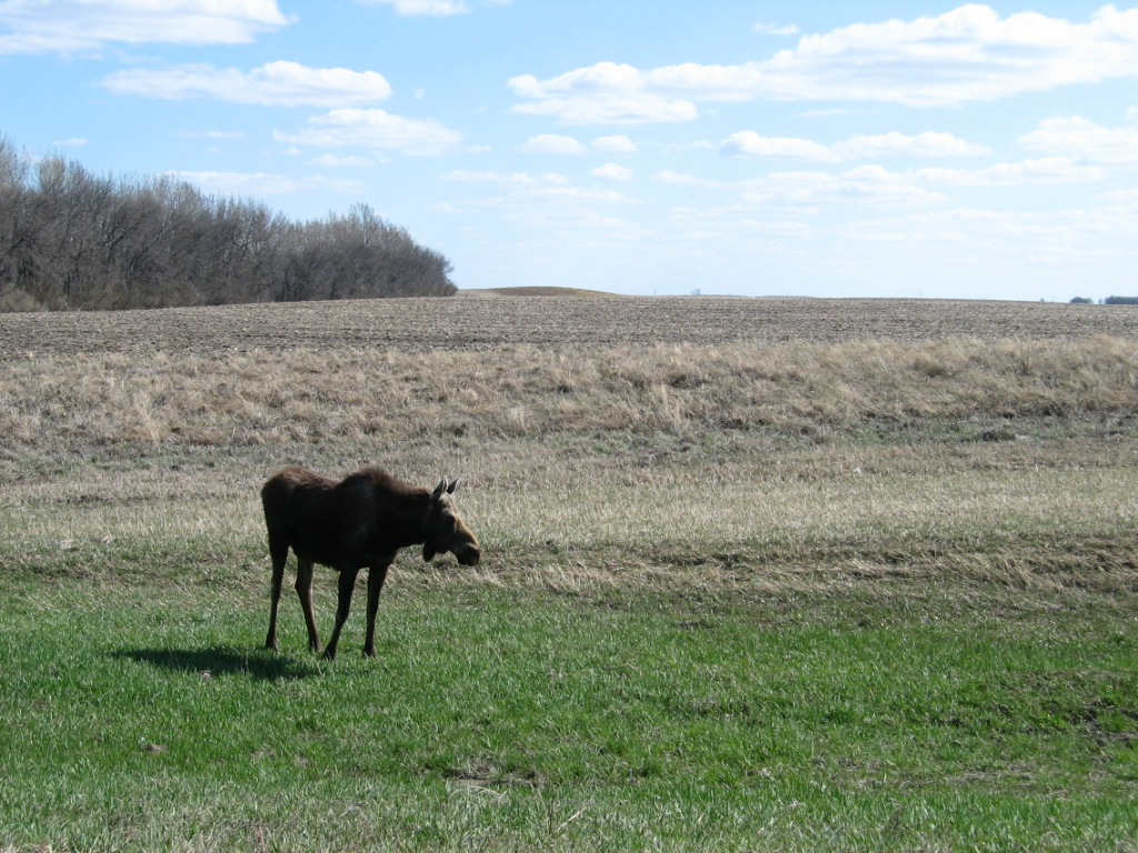 Moose off a road in North Dakota, USA